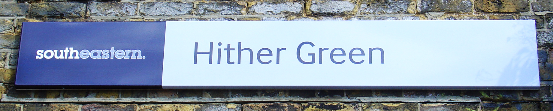 Hither Green Station Sign